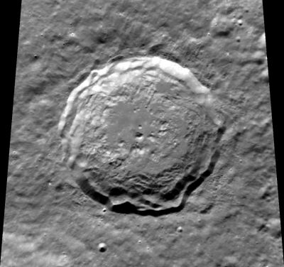 Kirkwood lunar crater - Clementine image